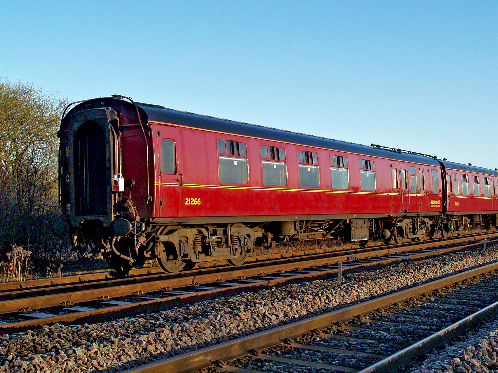 West Coast Railways former British Railways ?Standard? Mark 1 diagram AB302 corridor brake composite coach number 21266 stands on Number 2 Road of the Down Sidings at Castleton East Junction with West Coast Railways former British Railways ?Standard? Mark 1 diagram AD103 open first coach number 99127 behind. Sunday 29th March 2009